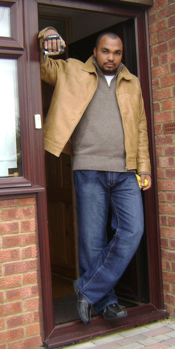 Photo of Abdulkareem Baba Aminu